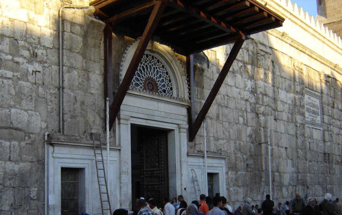 "Baab as-Saa'at" portal at Umayyad Mosque, Damascus. External view of the gate where the prisoners of Karbala were made to stand for 72 hours.